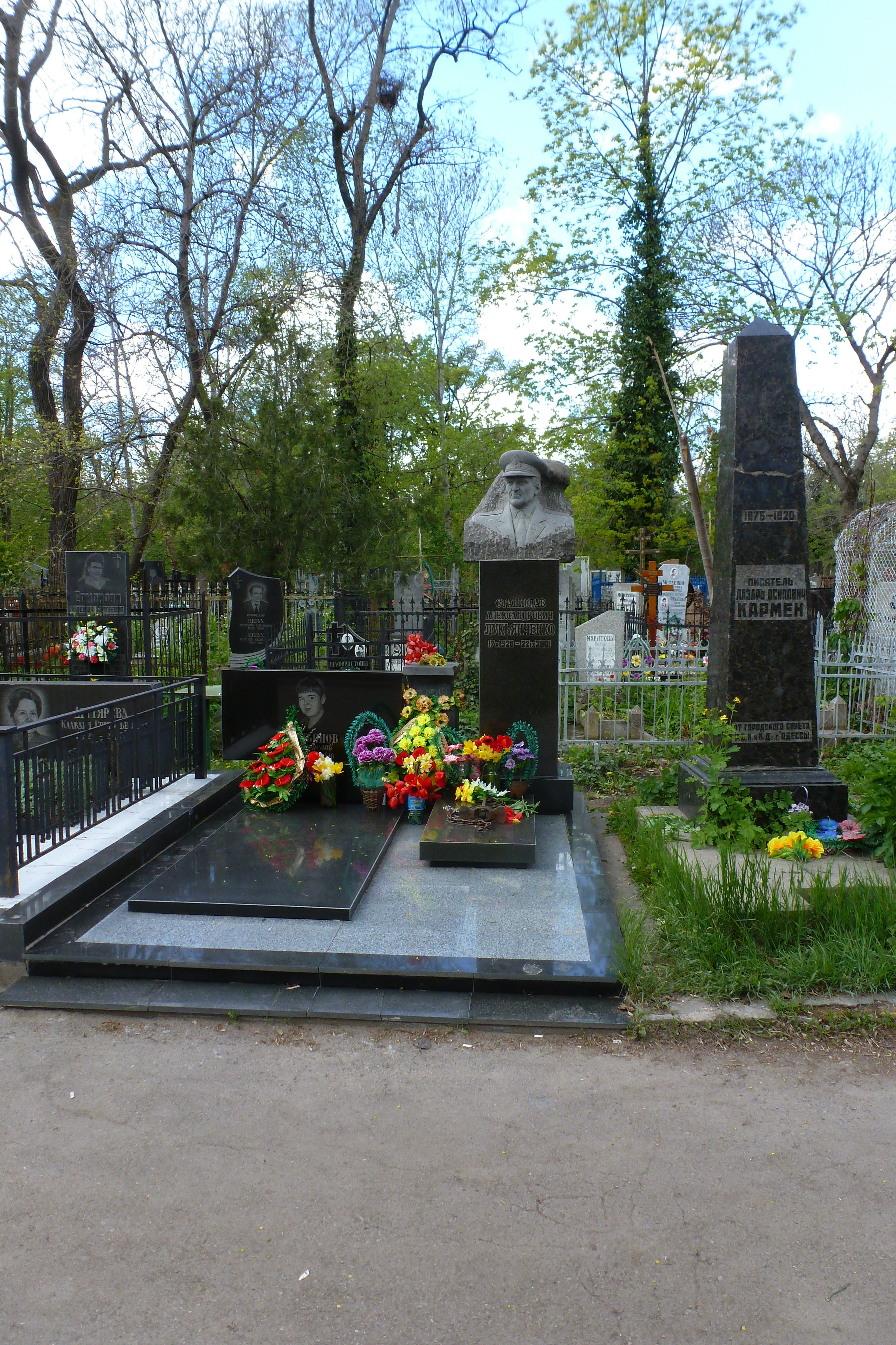 The tombstones of Stanislav Lukiyanchenko (center) and writer Lazar Karmen (right) on the 2nd Christian Cementery in Odessa.